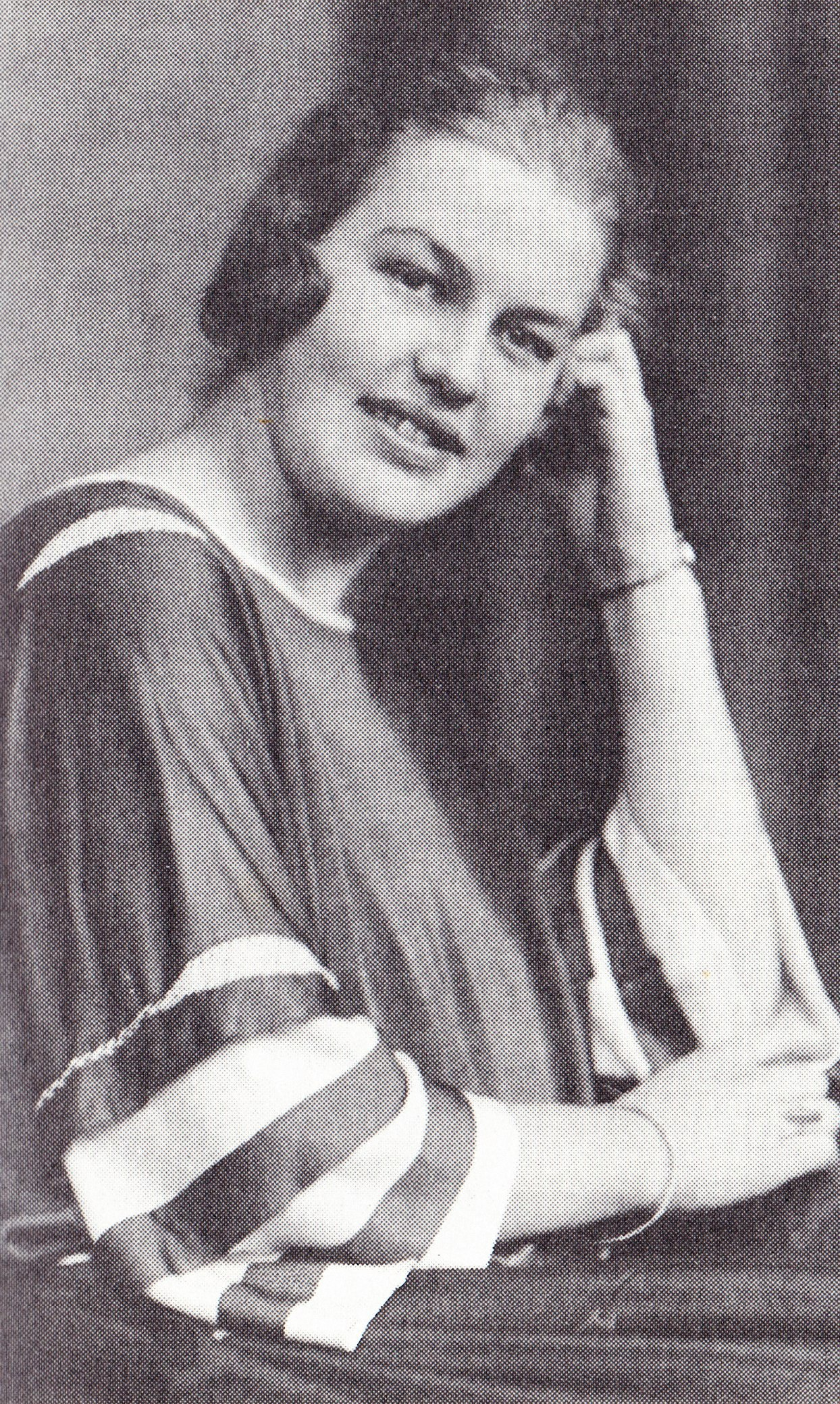 Lilly Gulbranssen in 1923.